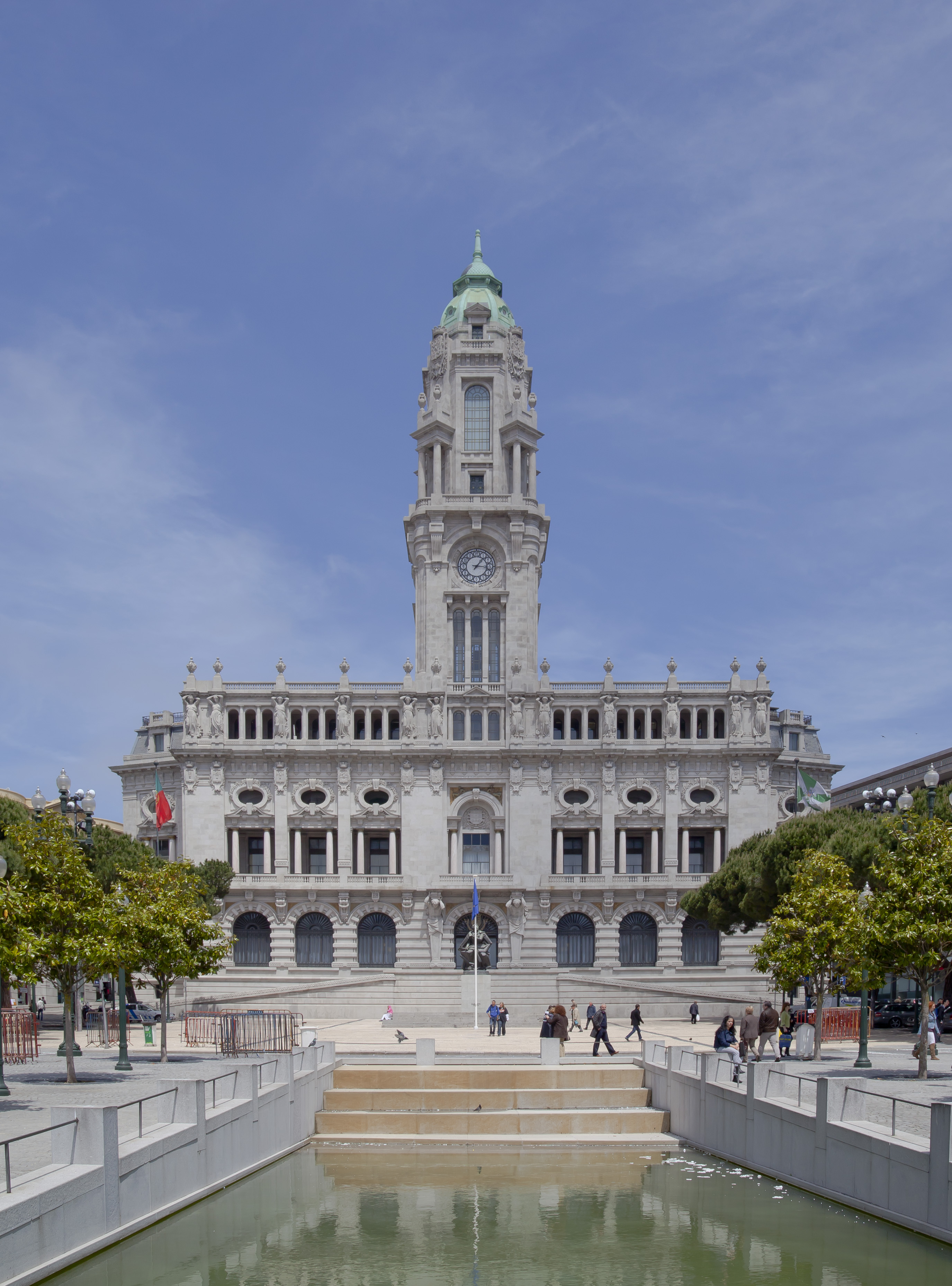 Porto city Hall, Portugal